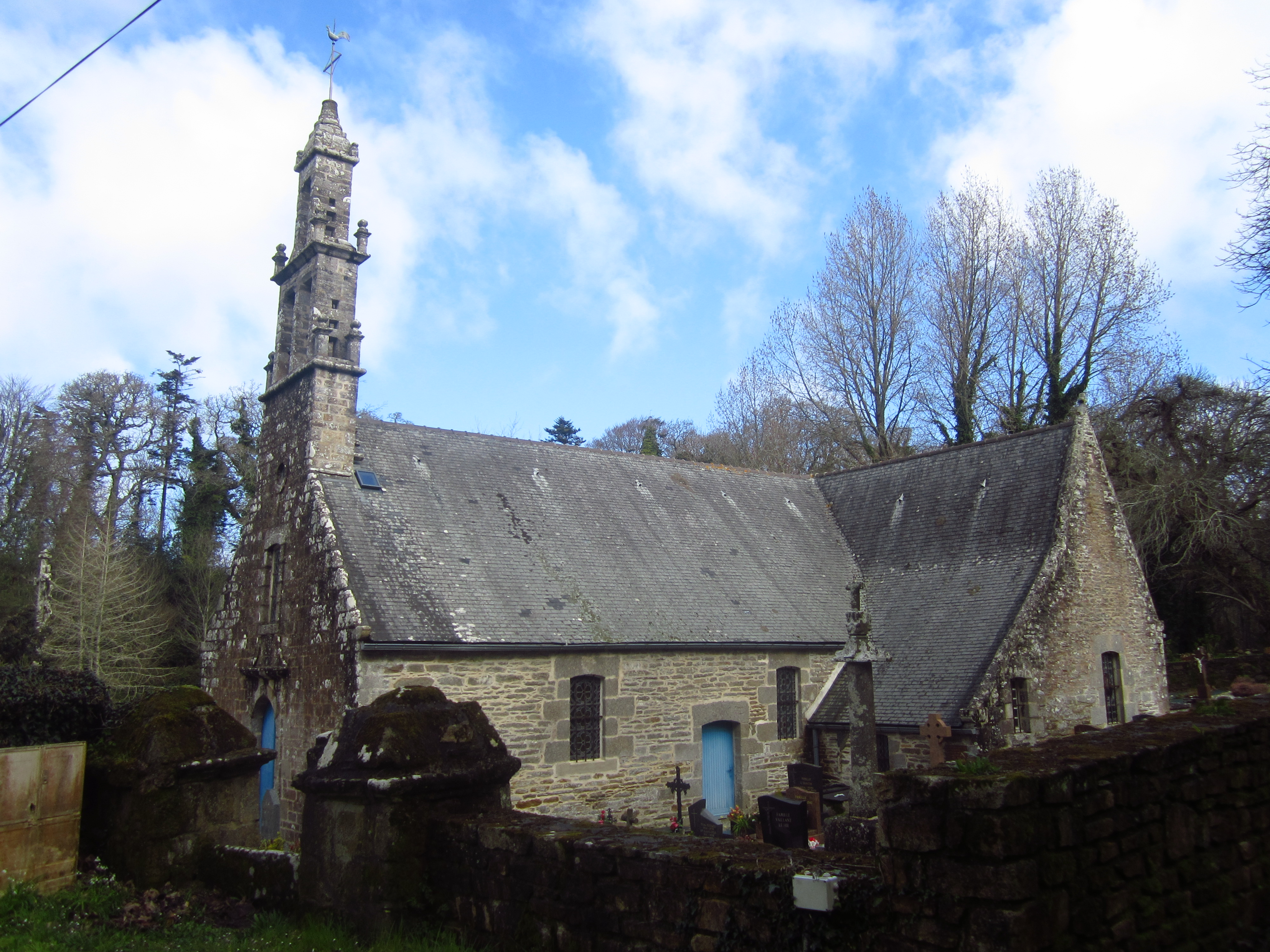 Church of Trébabu, Finistère